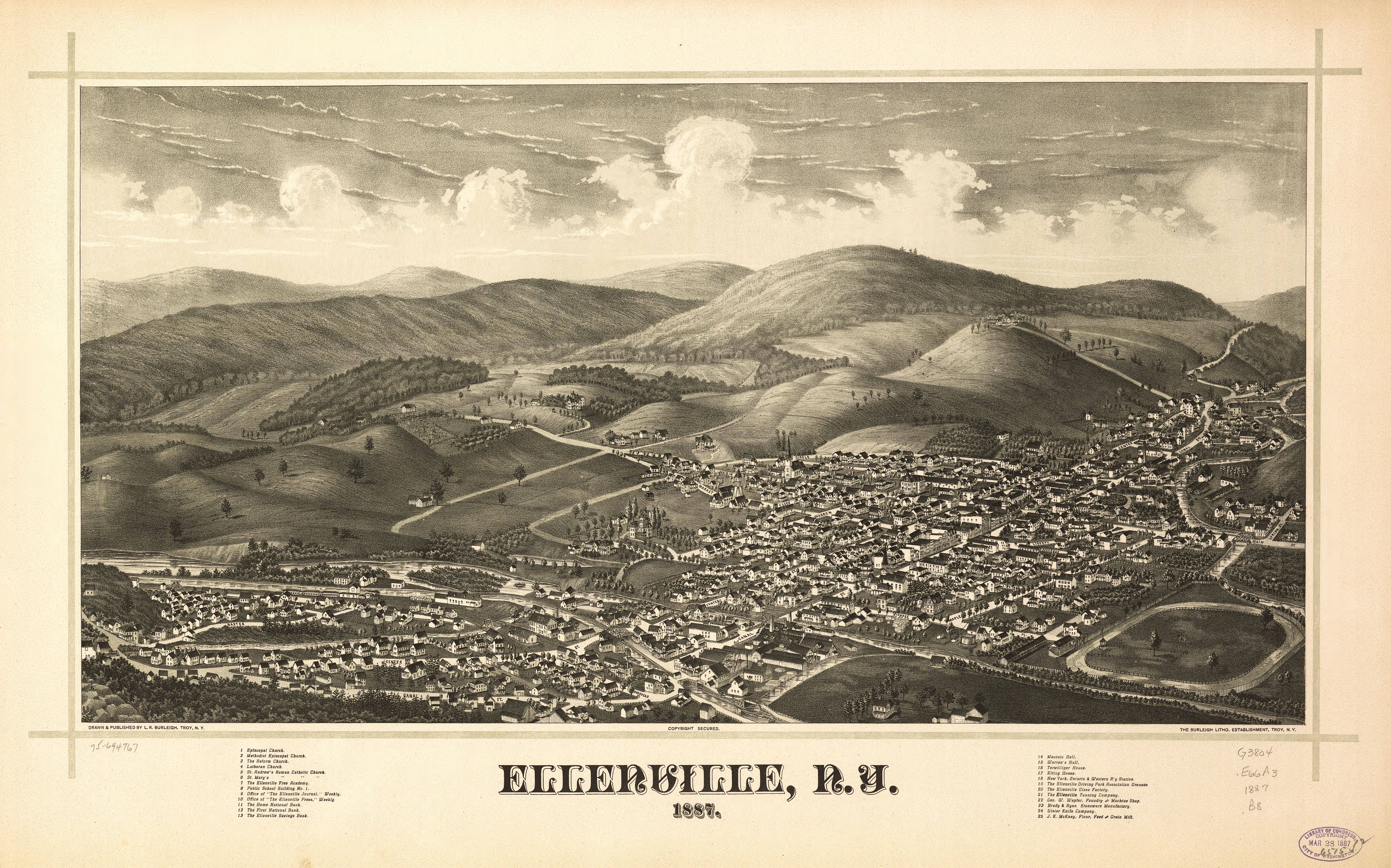 Perspective map not drawn to scale. Bird's-eye-view. LC Panoramic maps (2nd ed.), 558 Available also through the Library of Congress Web site as a raster image. Indexed for points of interest. AACR2